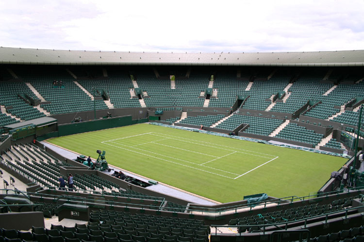 Court No.1, Wimbledon, 2004 Photo by Alexander Smotrov